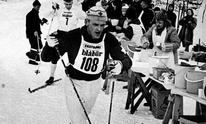 Swedish cross-country skier Assar Rönnlund on his way to victory in the 1967 edition of Vasaloppet.